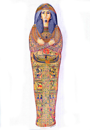 This is a reconstruction drawing of how the coffin of Nesyamun might originally have appeared. The cracks have been smoothed over and the beard and amulets restored to their rightful positions. The effect is intended to recall the illustrations made by Napoleon's surveyors in the 'Description of Egypt'. by Thomas Small